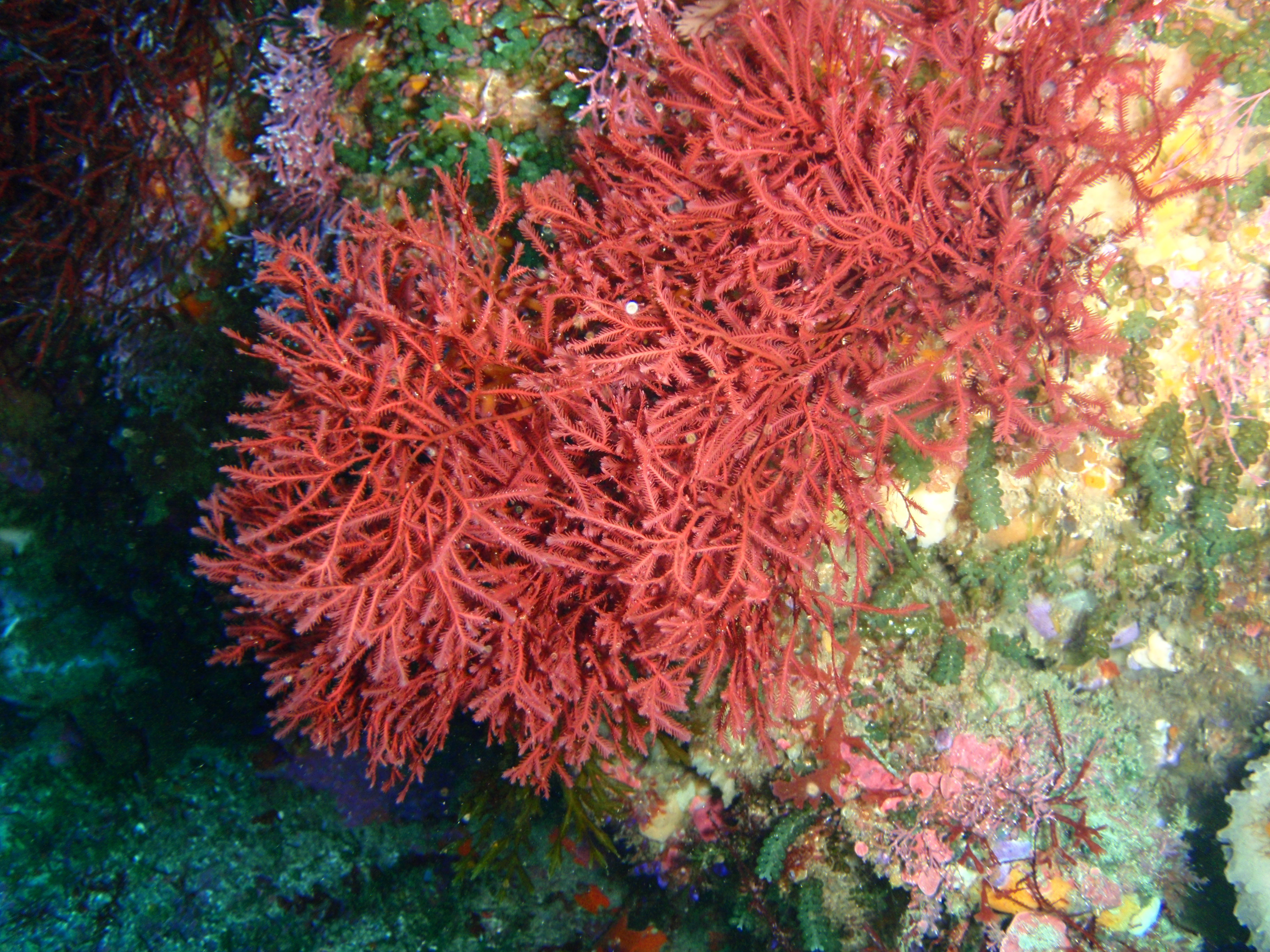 Red seaweed, South East Bay, Manawa Tawhi, Three Kings Islands